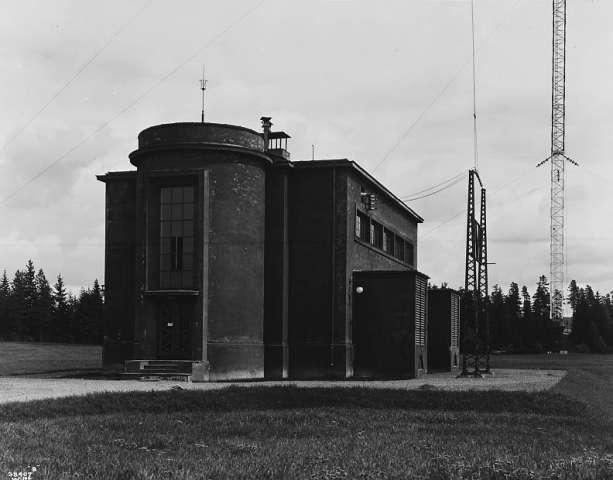 Lambertseter Radio: AM transmitter for the Kringkastingsselskapet